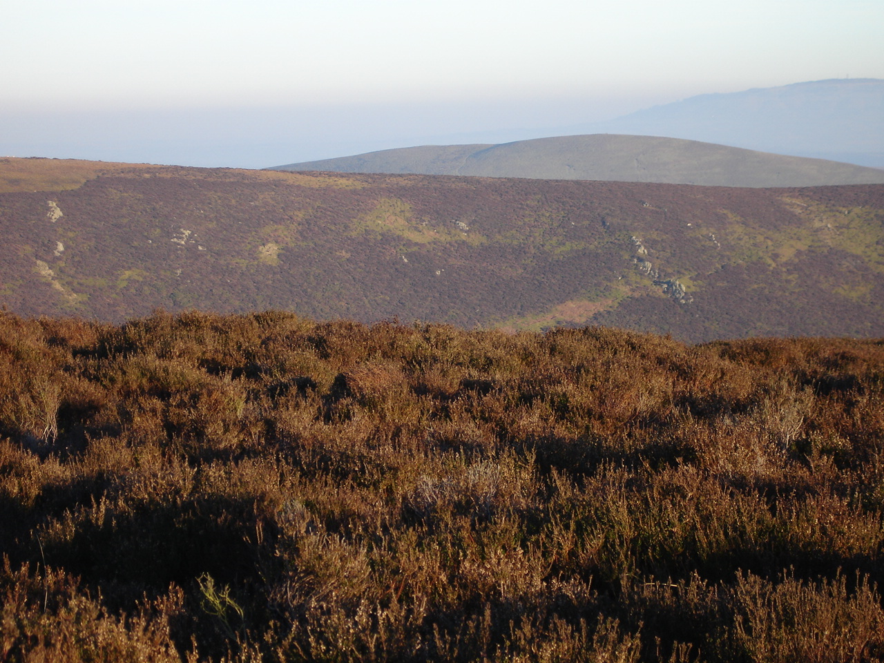 Heath - Long Mynd